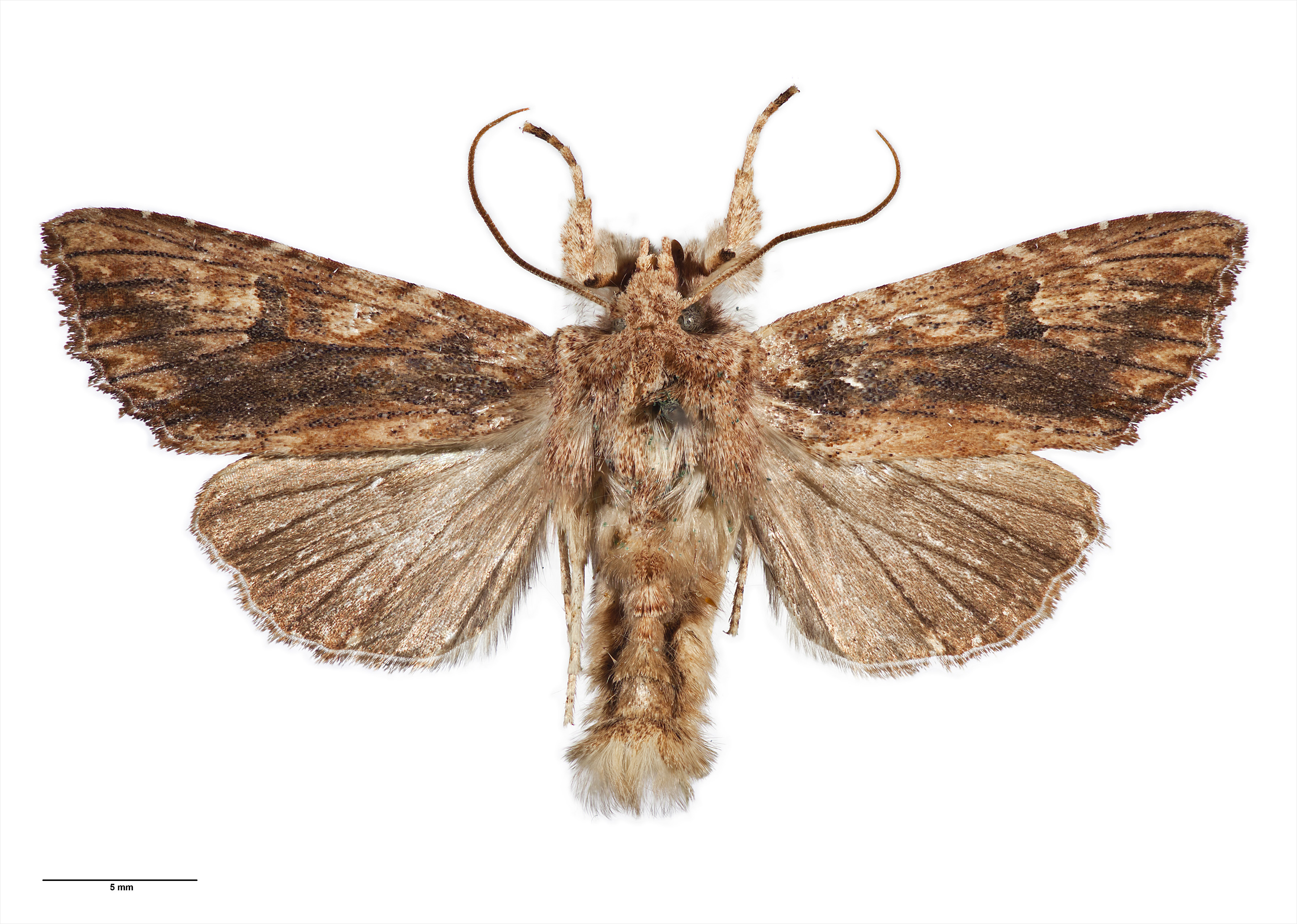 Dorsal view of male Meterana pascoei specimen held at Auckland War Memorial Museum